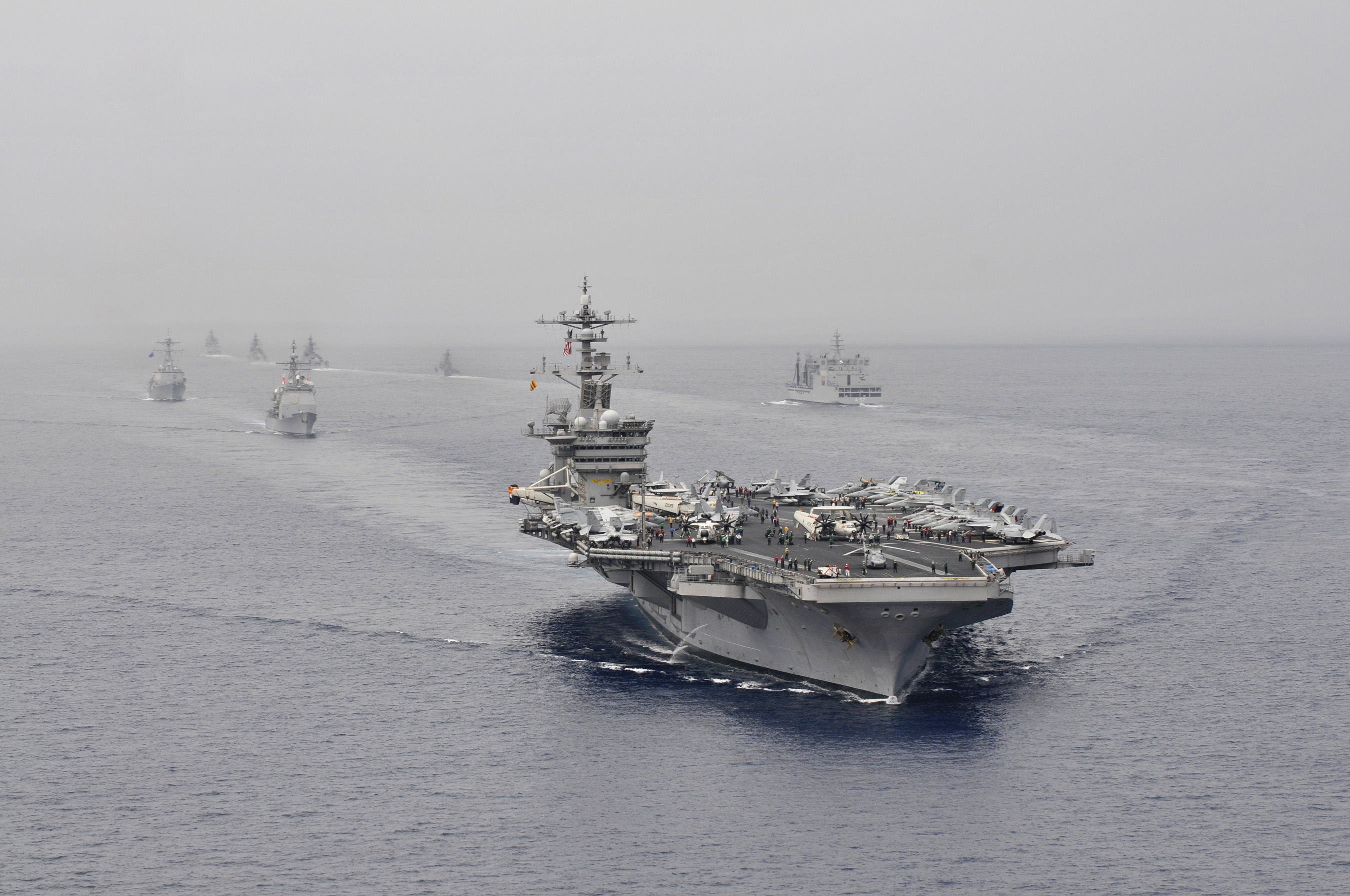 U.S. Navy ships participate in a passing exercise with Indian navy ships during Exercise Malabar 2012. 120416-N-ZI635-259 INDIAN OCEAN (April 16, 2012) The Nimitz-class aircraft carrier USS Carl Vinson (CVN 70), the Ticonderoga-class guided-missile cruiser USS Bunker Hill (CG 52) and the Arleigh Burke-class guided-missile destroyer USS Halsey (DDG 97) participate in a passing exercise with Indian navy ships during Exercise Malabar 2012. Carl Vinson, Bunker Hill, and Halsey comprise Carrier Strike Group (CSG) 1 and are participating in the annual bi-lateral naval field training exercise with the Indian navy to advance multinational maritime relationships and mutual security issues. (U.S. Navy photo by Mass Communication Specialist Seaman George M. Bell/Released)